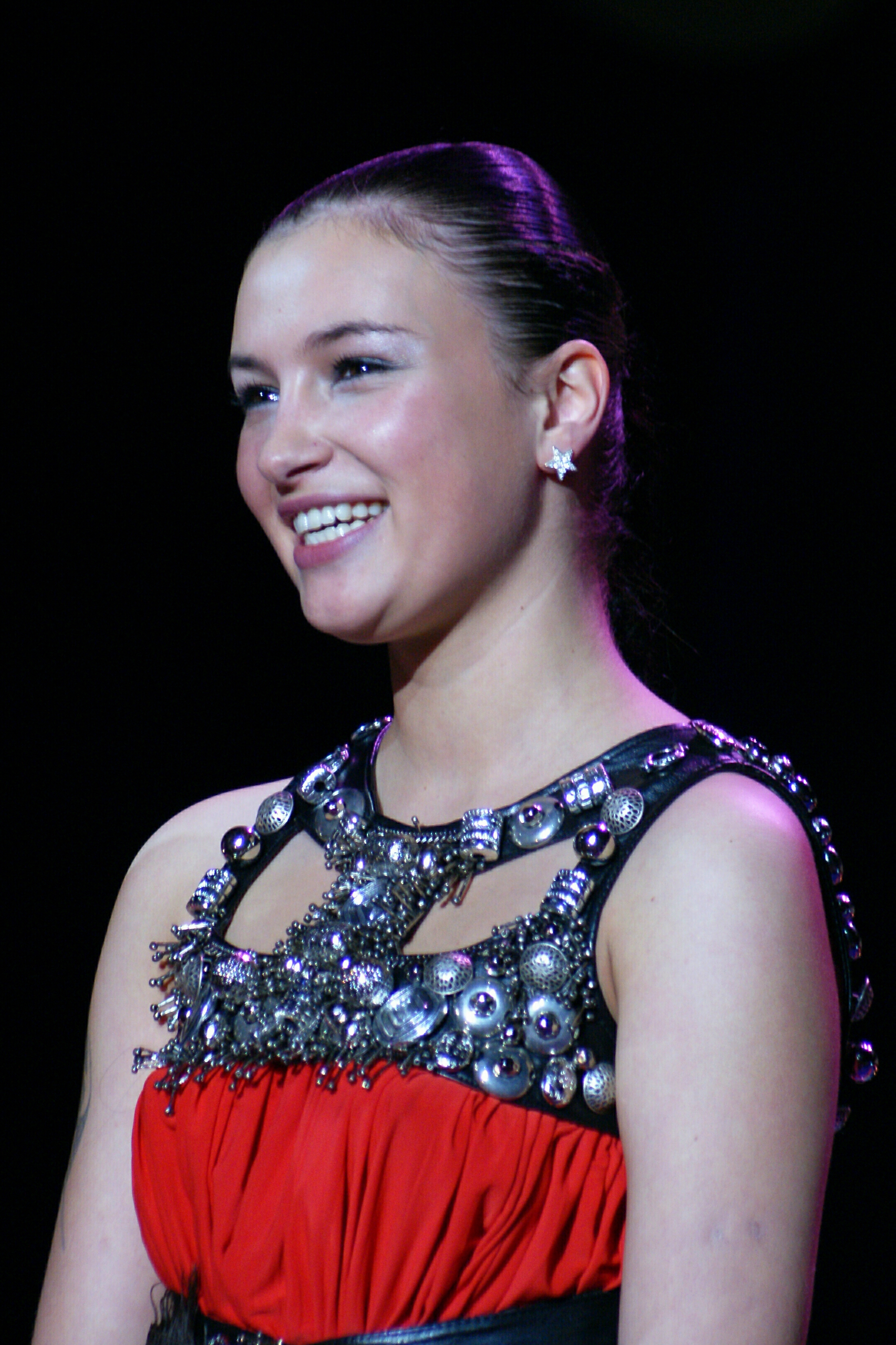 Anastasiya Prikhodko in Moscow, 2009